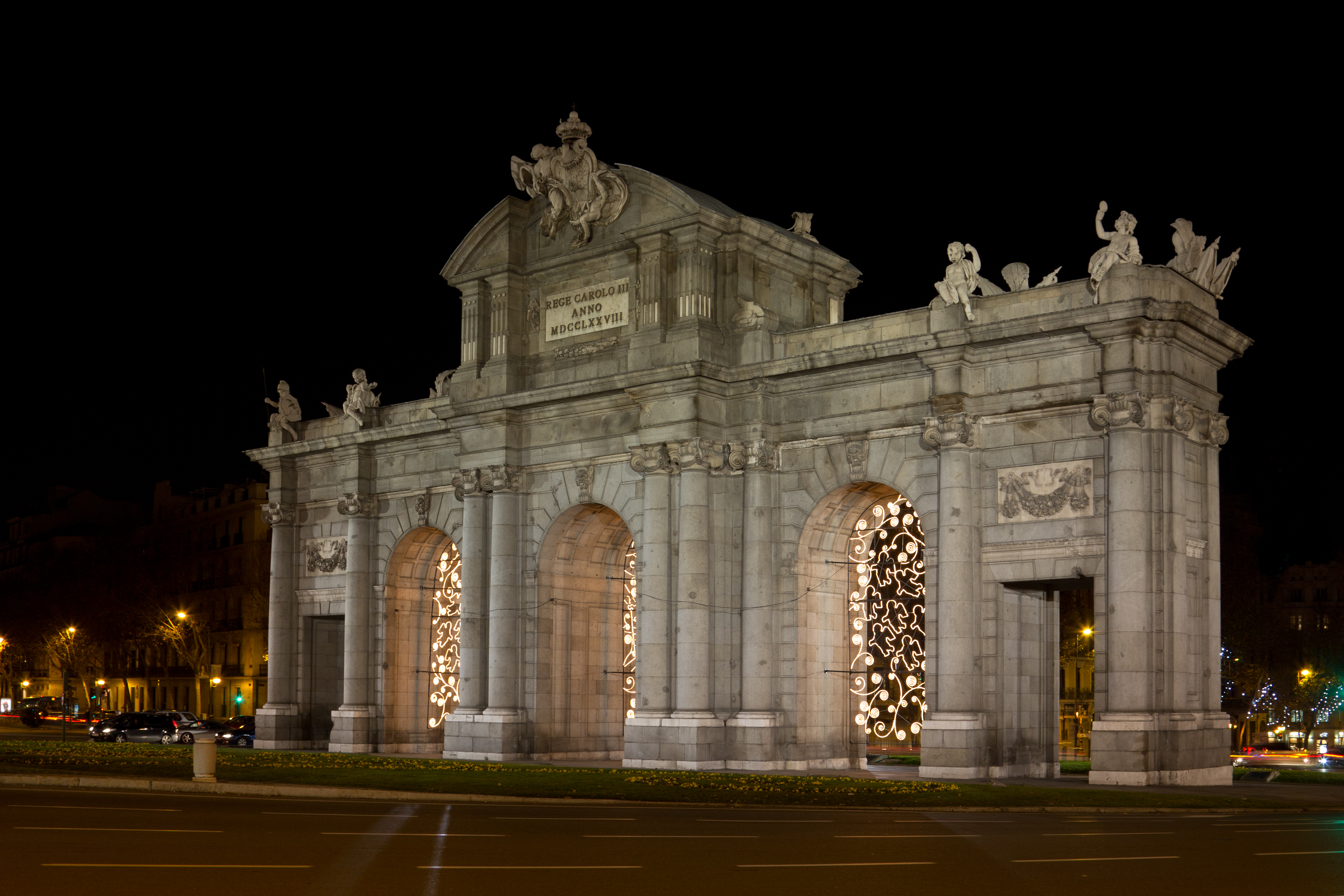 Puerta de Alcalá at night, Madrid, Spain.